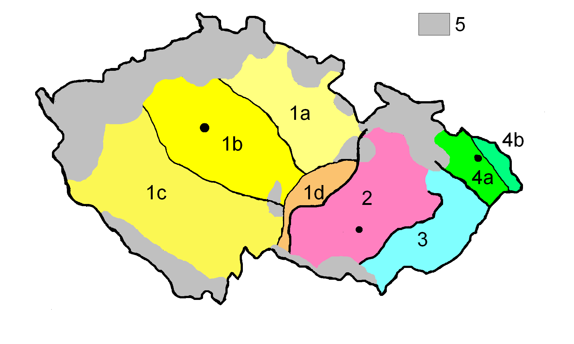 Dialects of the Czech language: 1 – Bohemian group 1a – North-East Bohemian subgroup 1b – Central Bohemian subgroup 1c – South-West Bohemian subgroup 1d – Bohemia-Moravian subgroup 2 – Central Moravian group 3 – East Moravian group 4 – Silesian group 4a – Silesia-Moravian subgoup 4b – Silesia-Polish subgroup 5 – heterogenous dialect speakers